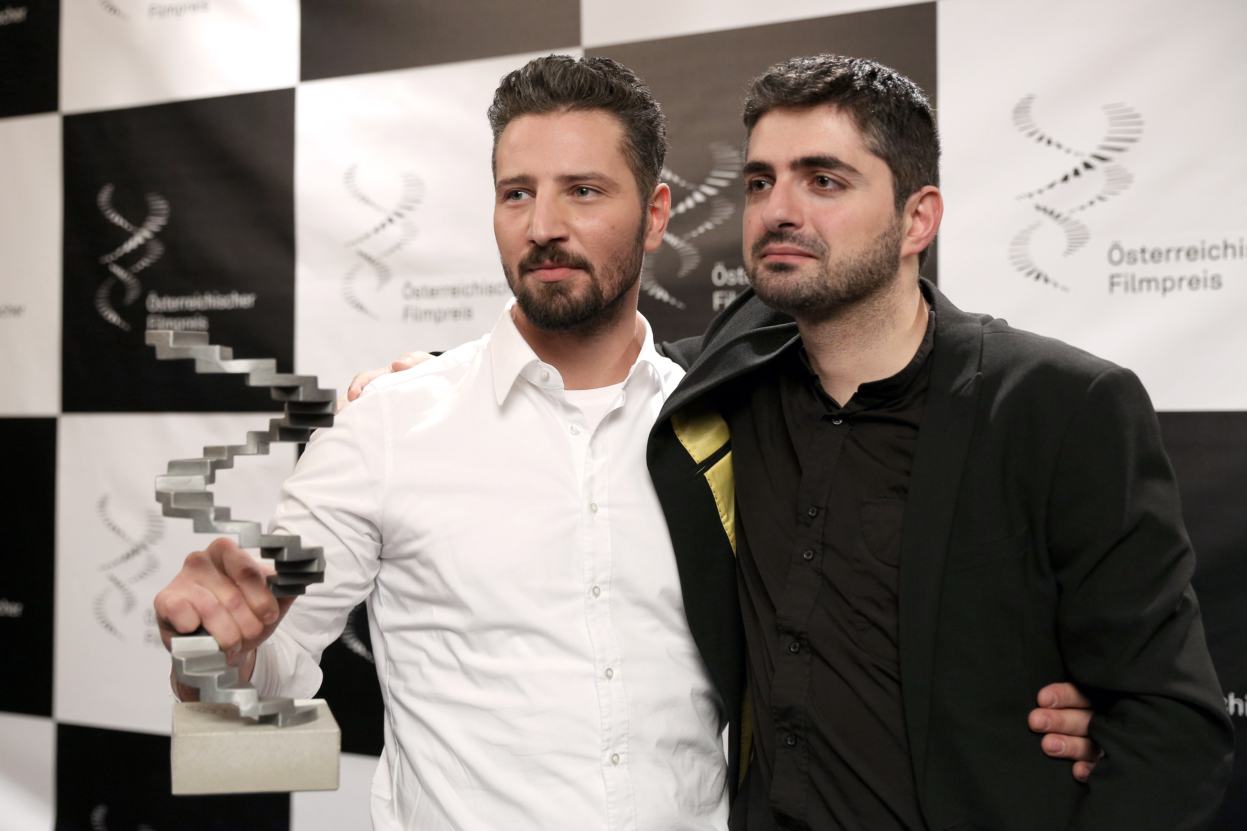 Murathan Muslu and Umut Dağ at the Austrian Film Awards 2015 at Rathaus, Vienna,Austria.